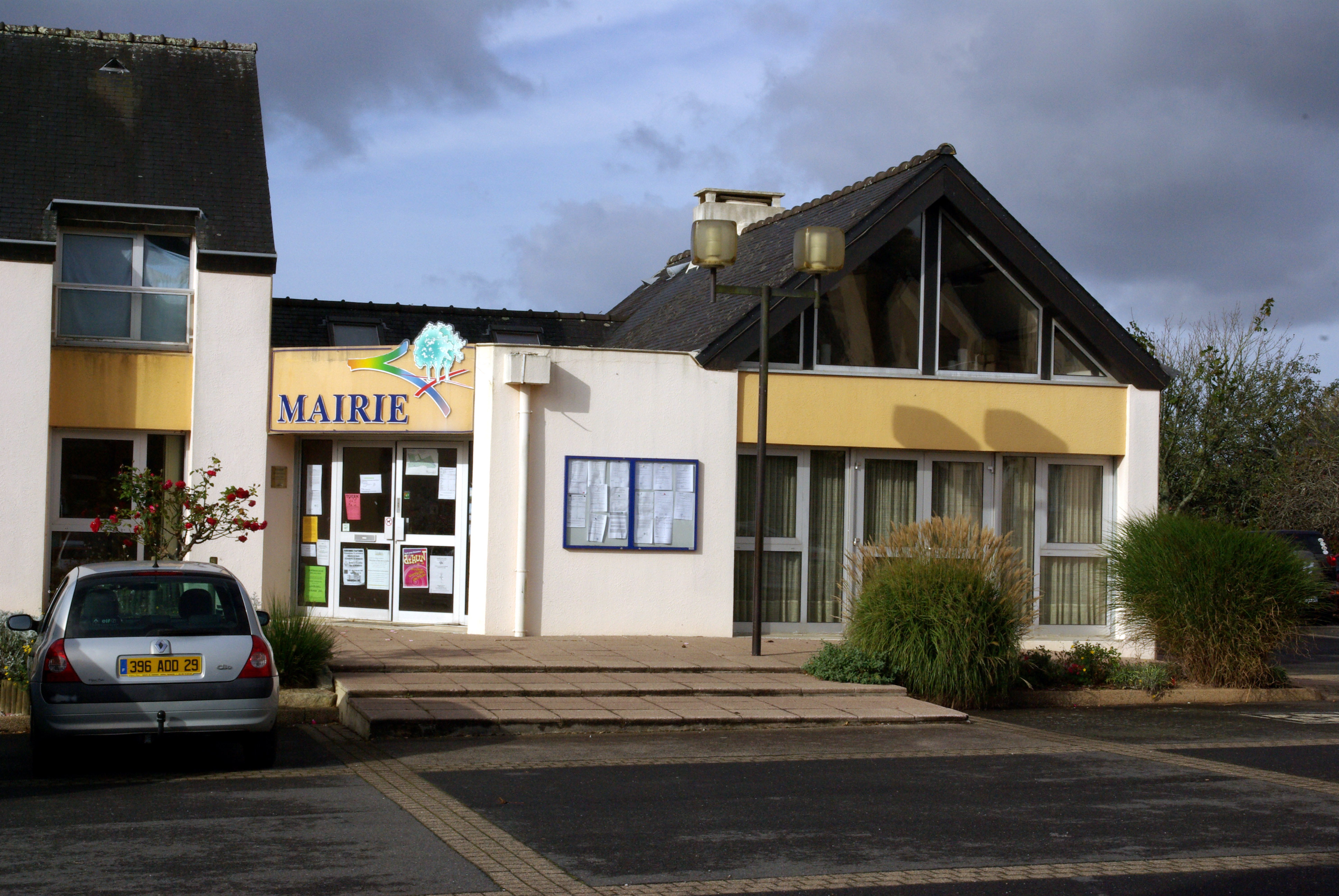 Landudec, the mayor's office